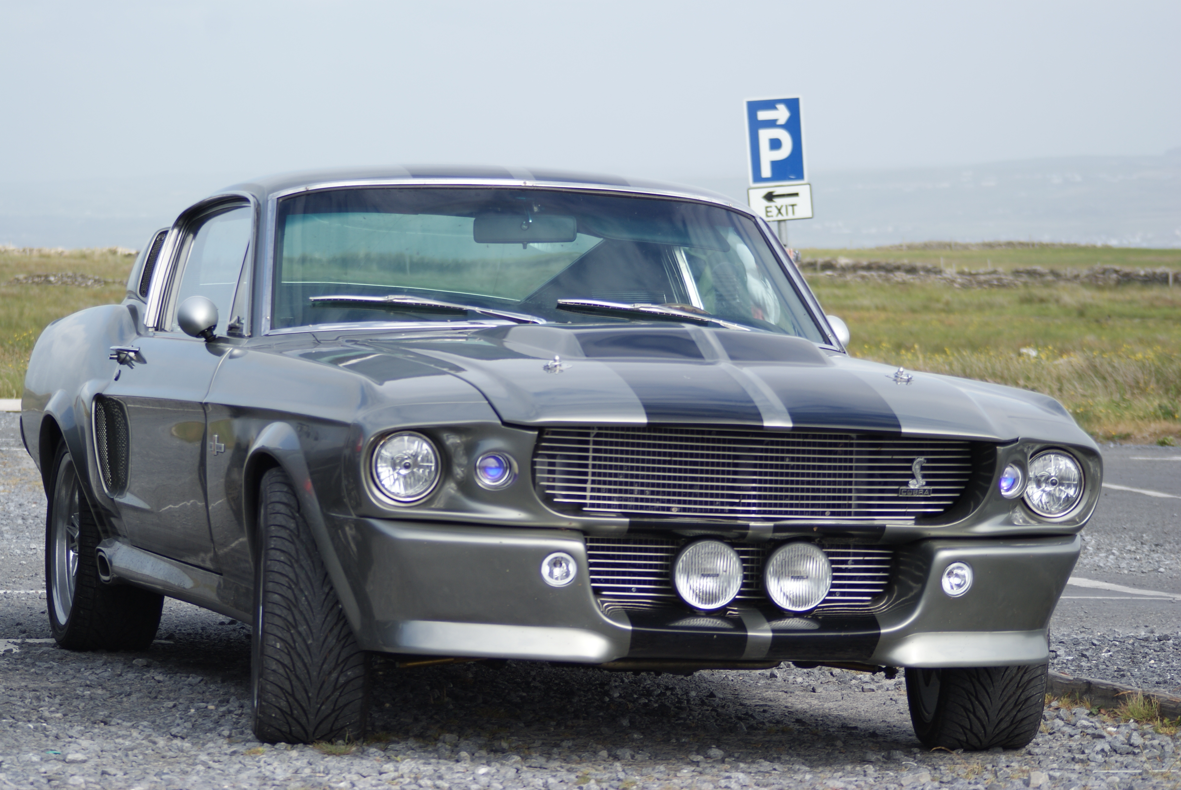 Shelby Mustang GT500 "Eleanor"